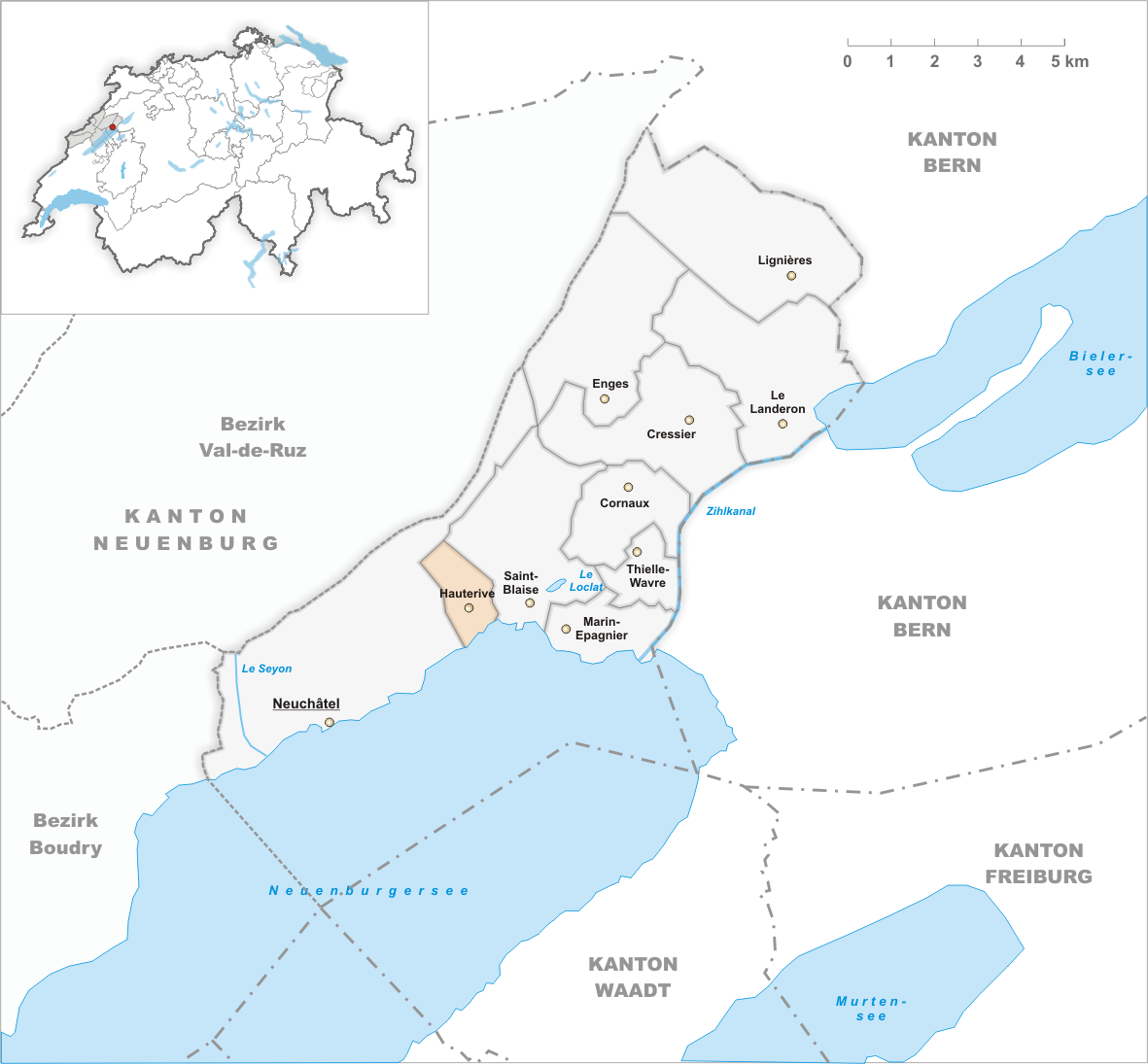 Municipality Hauterive